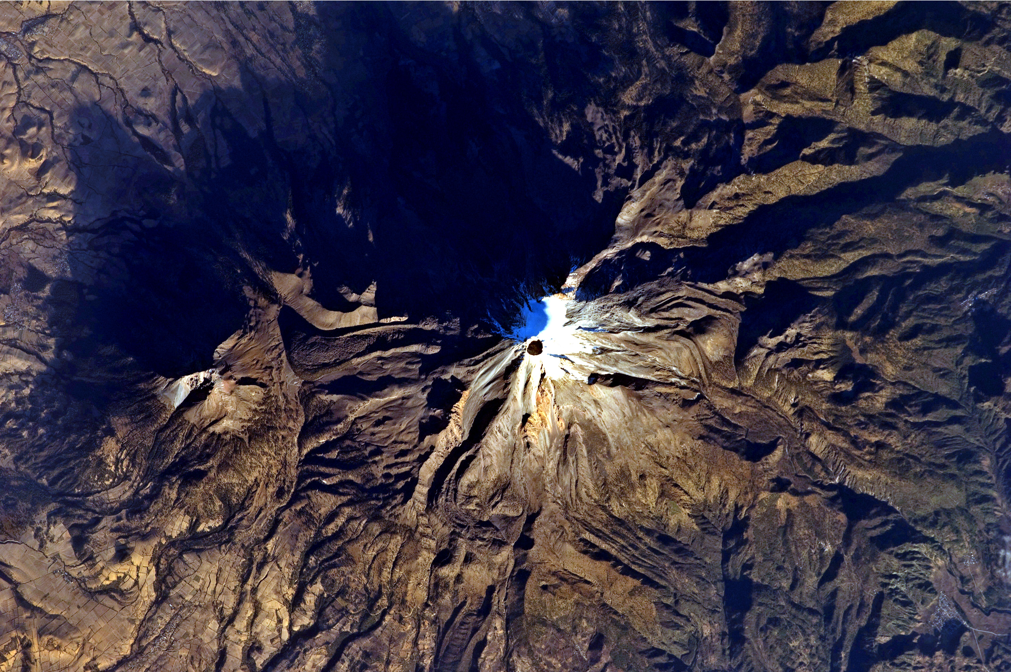 Shadows accentuate several features of the Pico de Orizaba, a stratovolcano, visible in this astronaut photograph from the International Space Station. The 300-meter-deep summit crater is clearly visible against surrounding ice and snow cover near image centre. Several lava flows extend down the flanks of the volcano, made readily visible by prominent cooling ridges along their sides known as flow levees. One of the most clearly visible examples is located on the south-west flank of the cone.